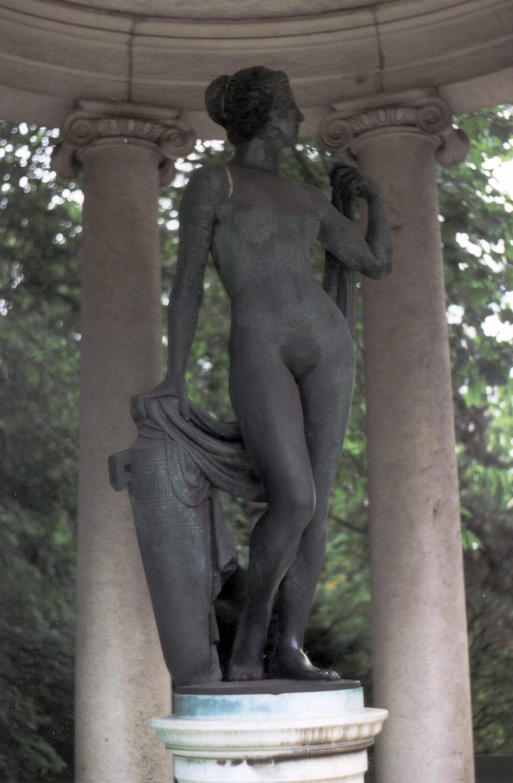 Statue of Aphrodite by Wilhelm Wandschneider in Linz/Austria 1942-2008